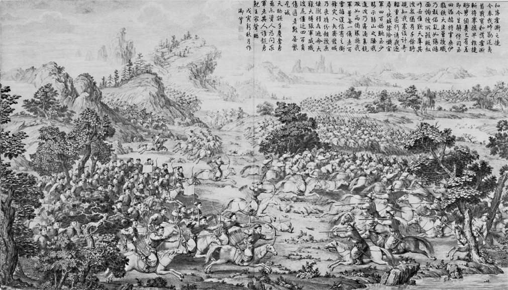 Battle of Khorgos, Prince Cäbdan-jab defeats the forces of the Zungarian Prince Amoursana,1758